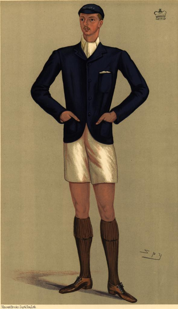 Caricature of Arthur Oliver Villers Russell, 2nd Baron Ampthill, founding member of the IOC. Caption read "OUBC".